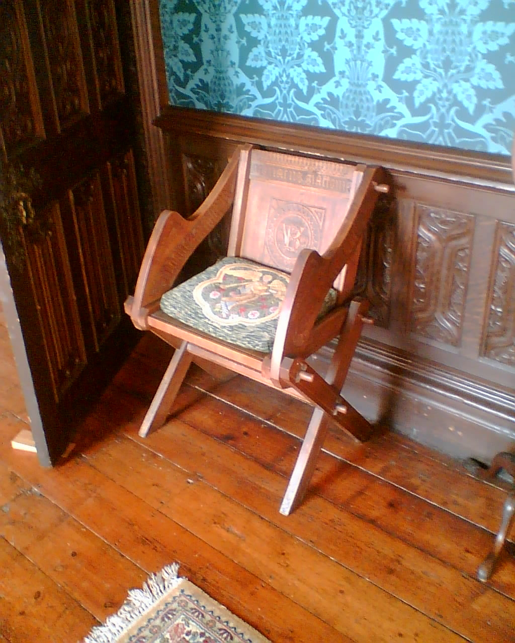 Victorian reproduction of the Glastonbury chair, now in the Bishop's Palace, Wells with the original.